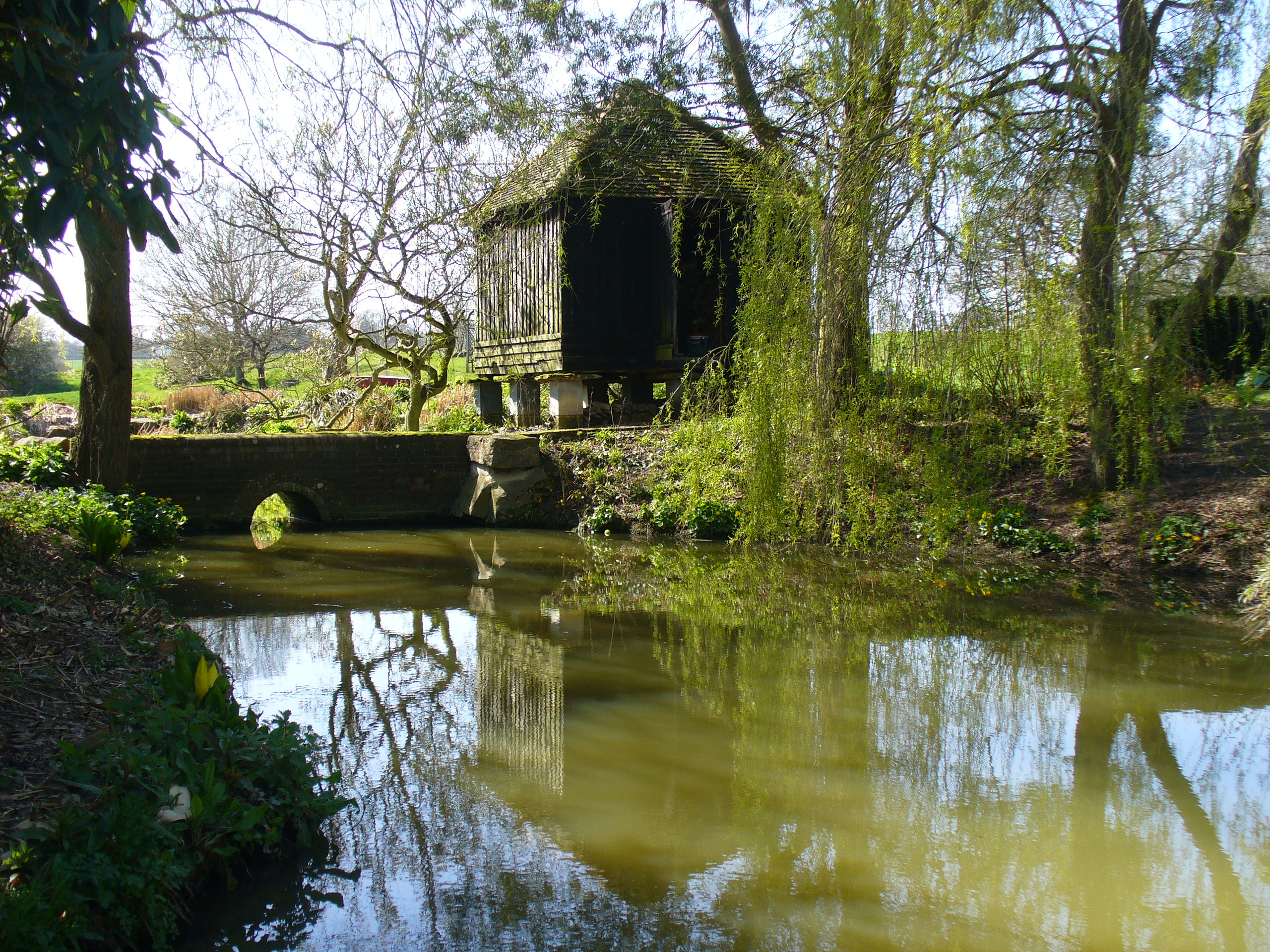 River Mole at Baldhorns Park, near to Rusper, West Sussex, Great Britain. Arcadian scene on the Mole about 1 mile below its source at Rusper.